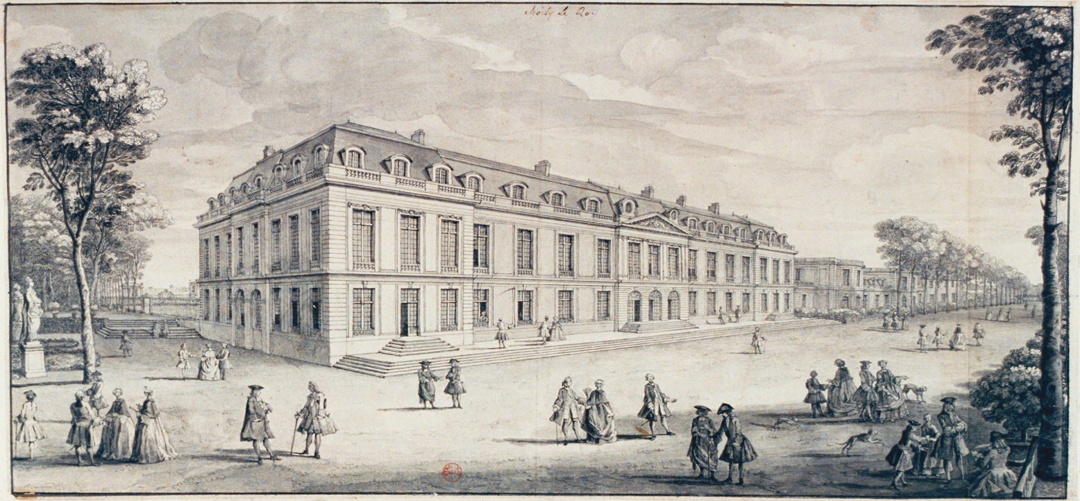 Drawing of the Château in Choisy-le-Roi